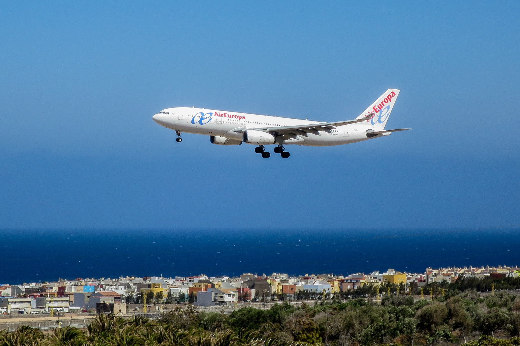 Air-europa in Las-palmas